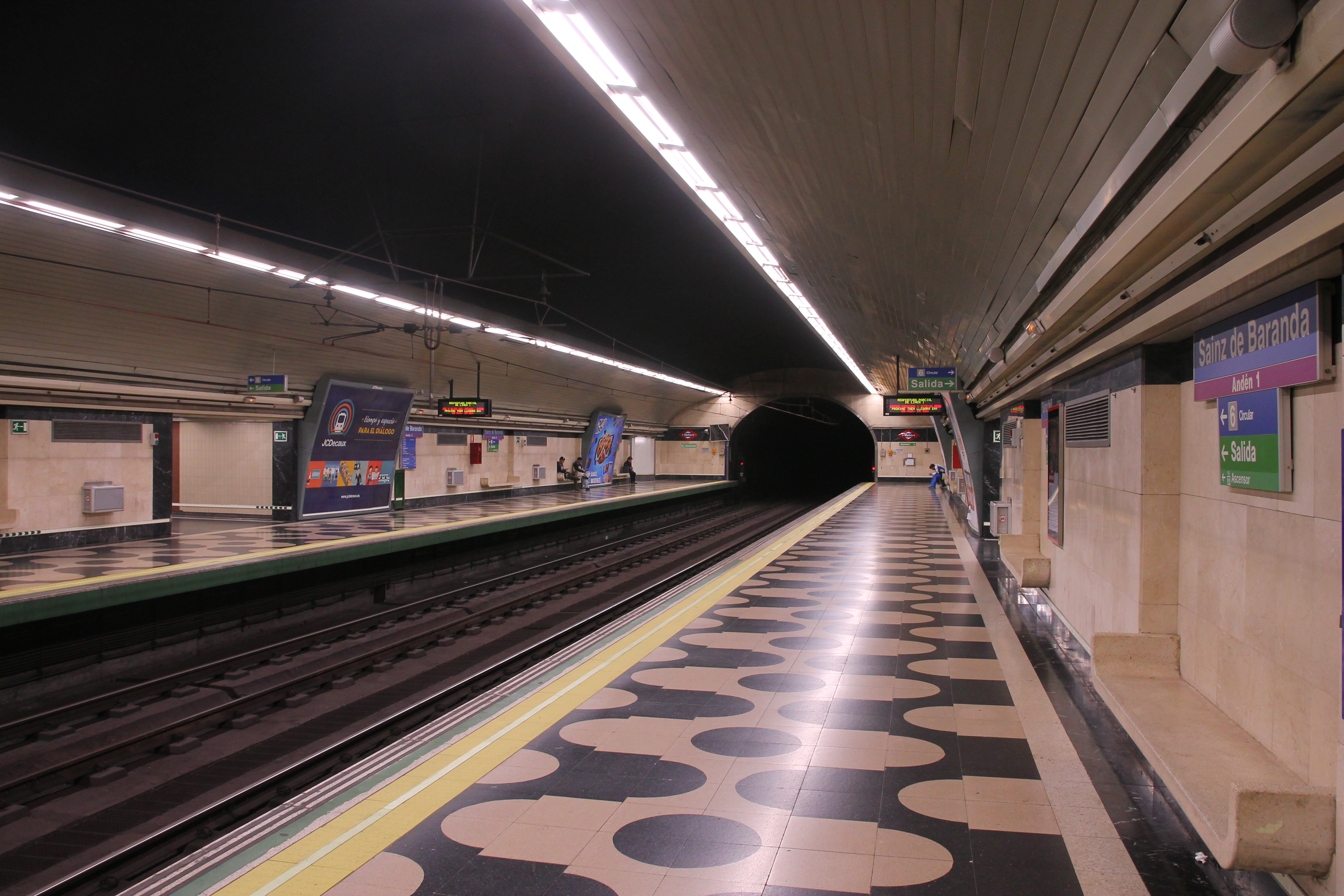 Estación de Sainz de Baranda